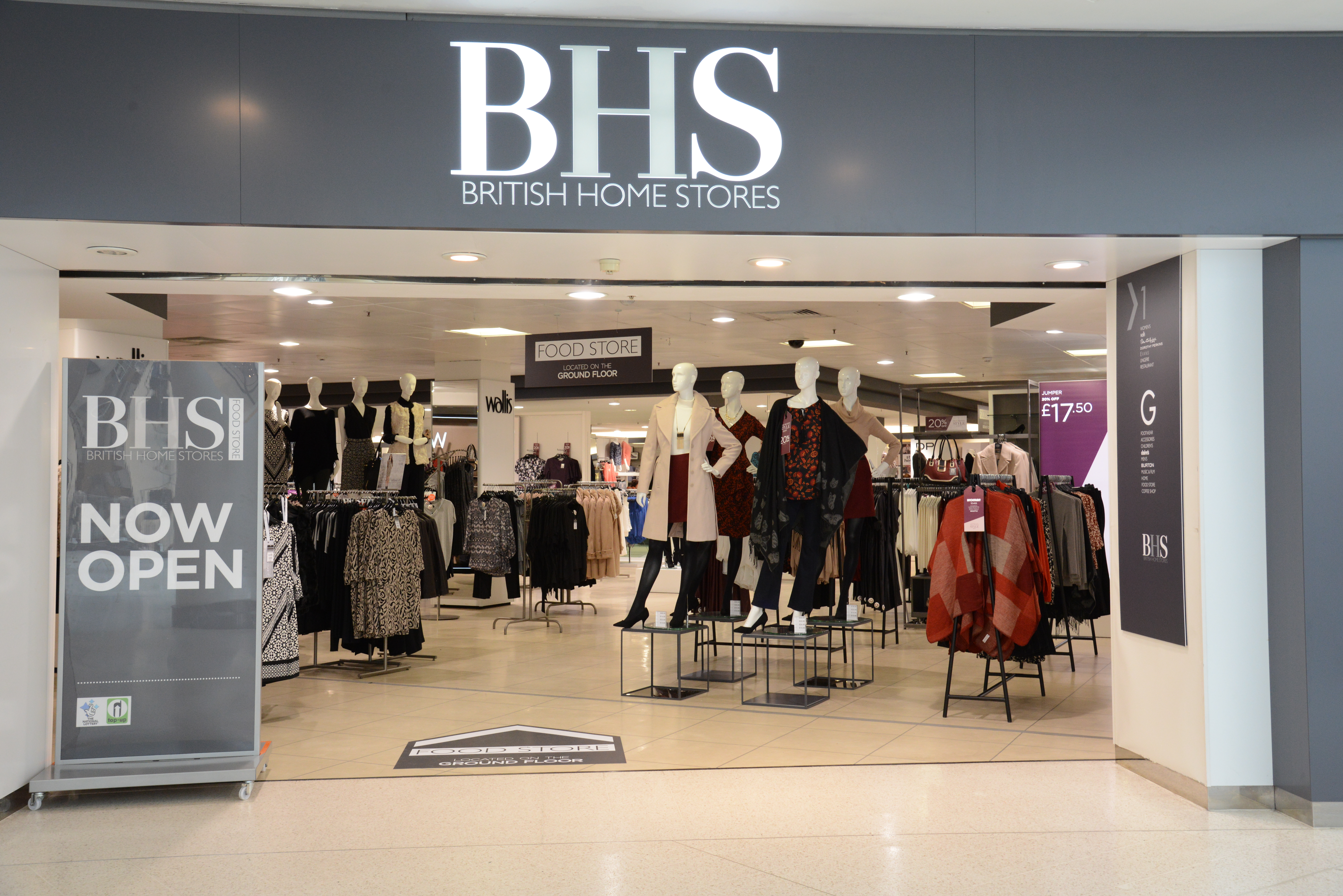 New fascia of British Home Stores 2016